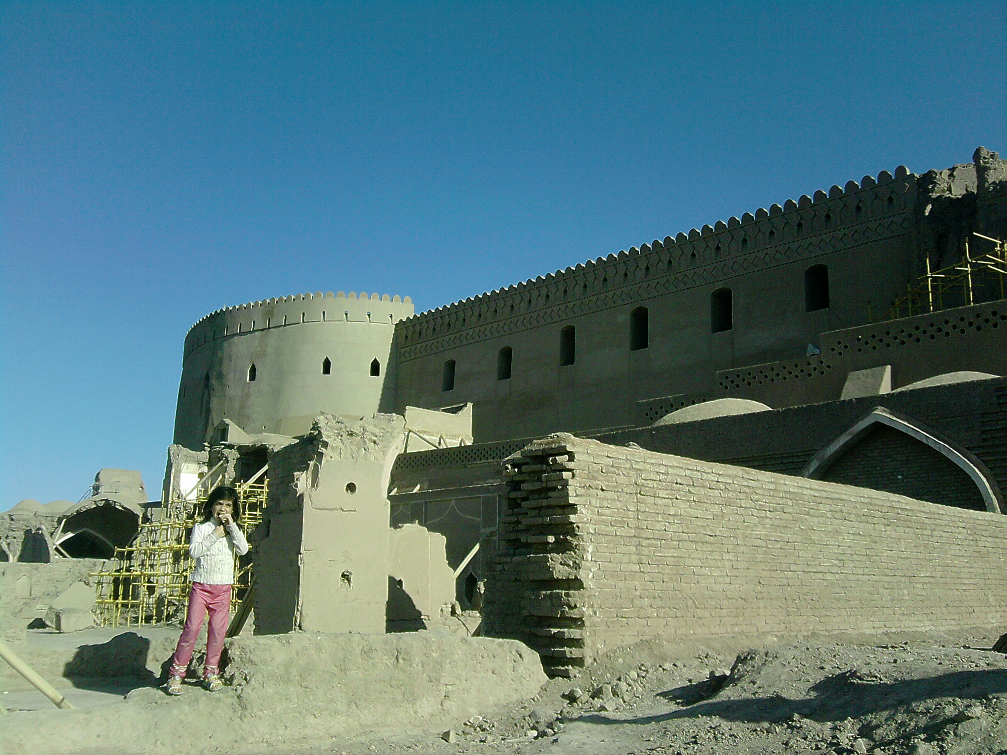 AFTER EARTHQUAKE.